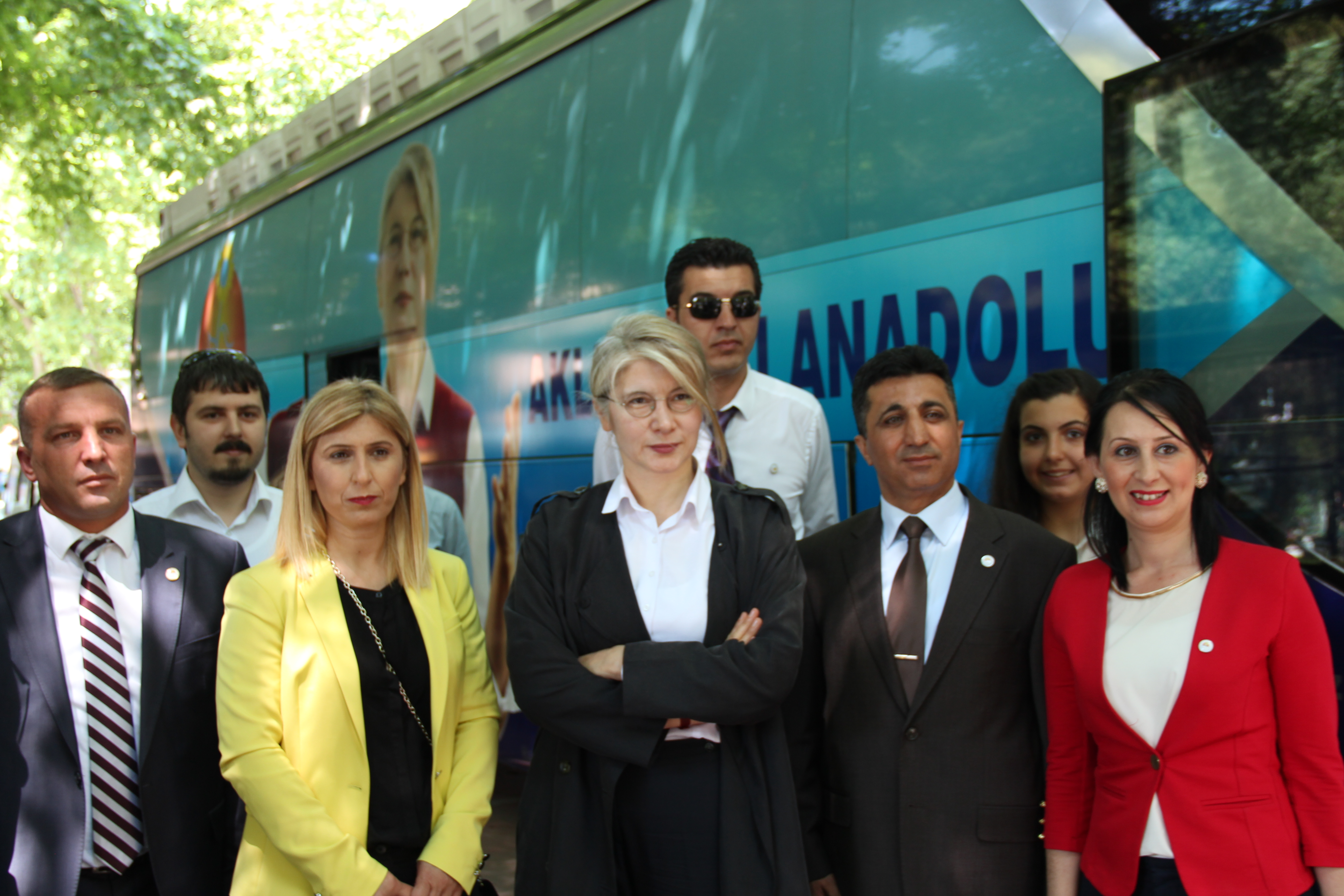 Emine Ülker Tarhan, Anatolia Party 2015 general election campaign in Kocaeli